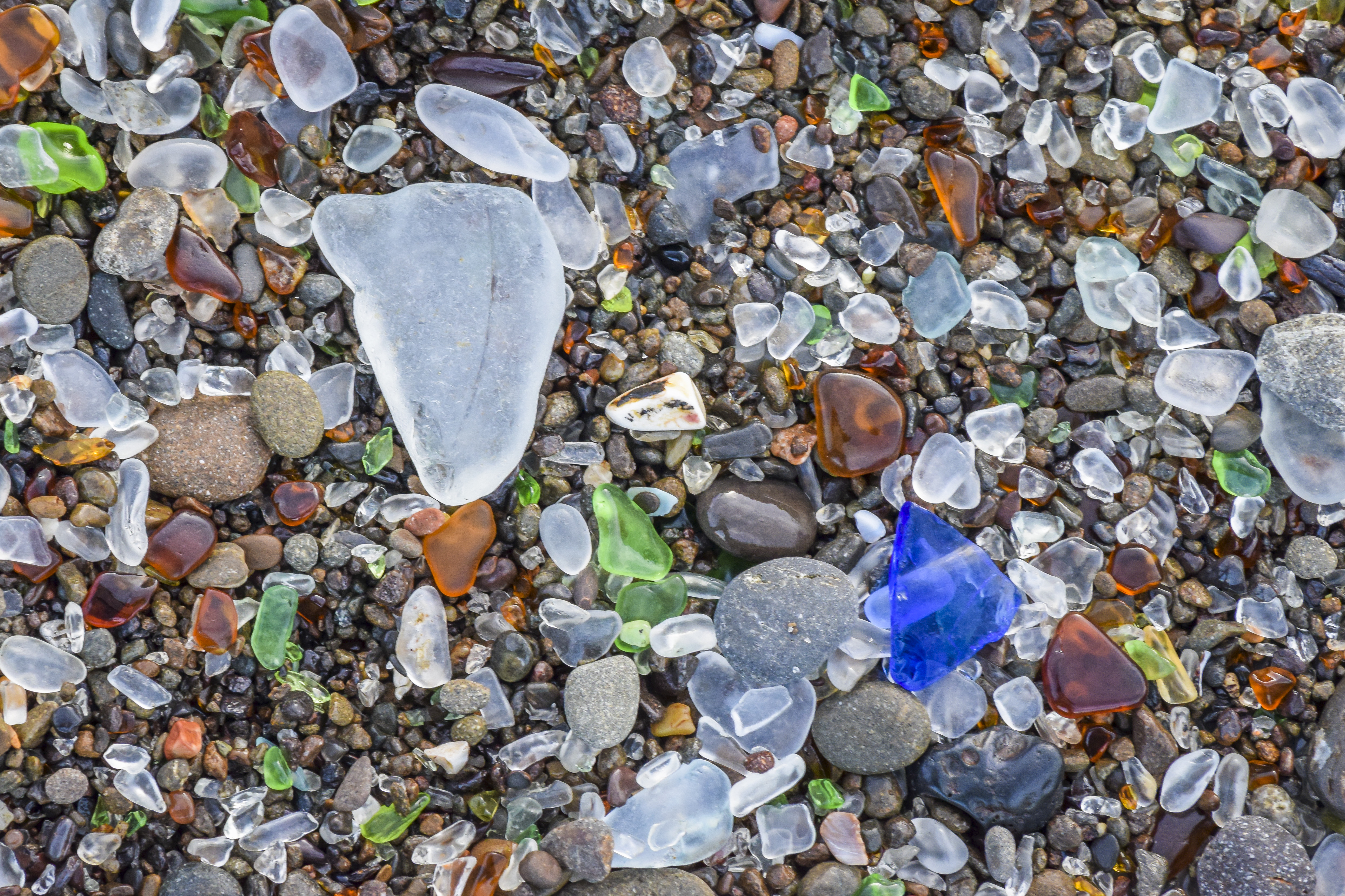 Sea Glass on Glass Beach near Fort Bragg, CA